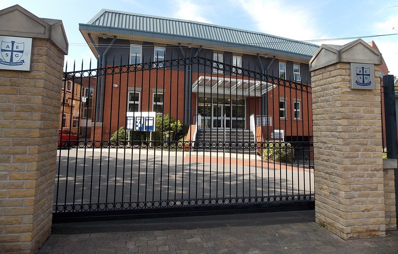 School gates, Alderley Edge